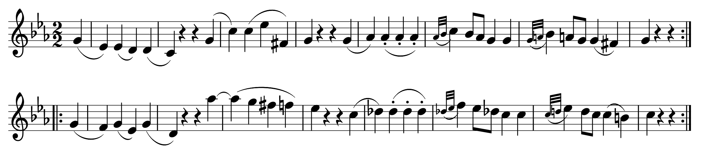 Theme, third movement, Mozart's Piano Concerto No. 24, K. 491.